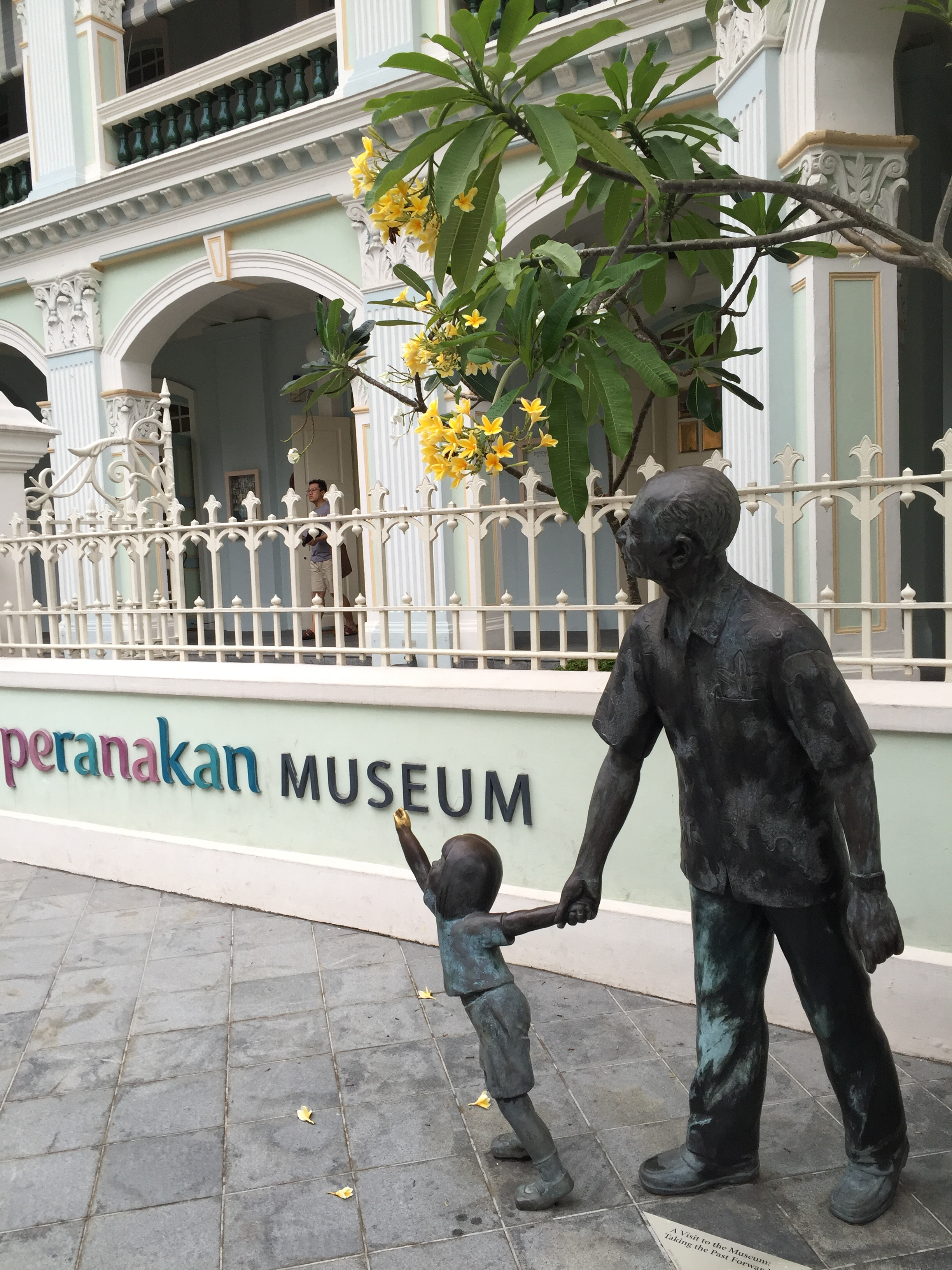 A Visit to the Museum: Taking the Past Forward (installed 2000) by Chern Lian Shan in front of the Peranakan Museum, Singapore. Next to the sculpture is a pot of flowering Plumeria.